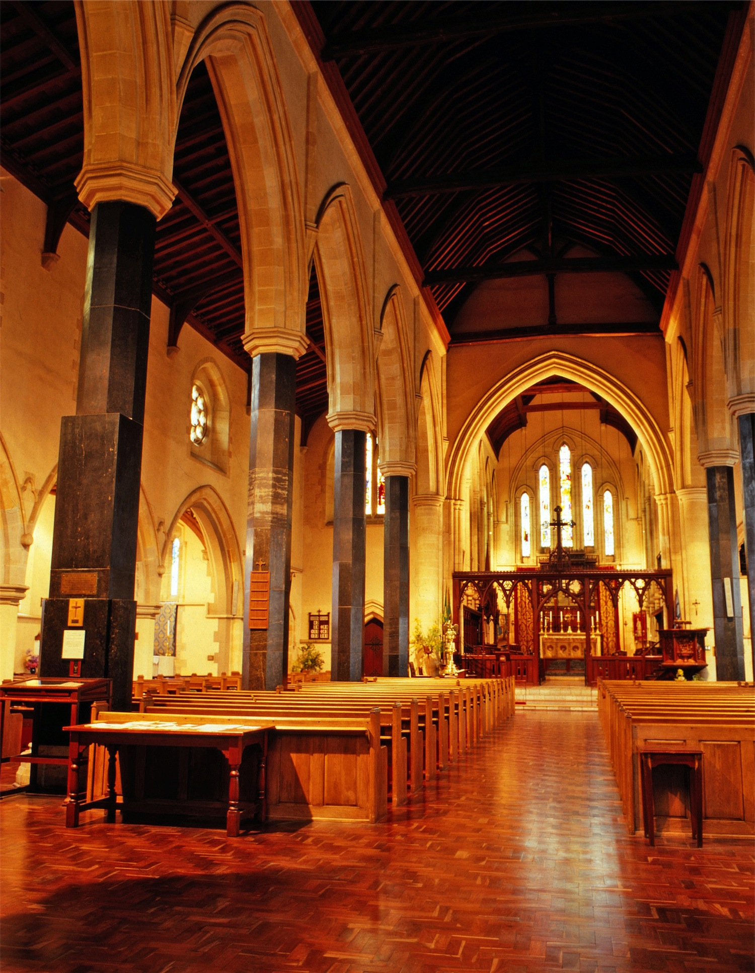 This media shows a South African Protected Site with SAHRA file reference 0000000000.